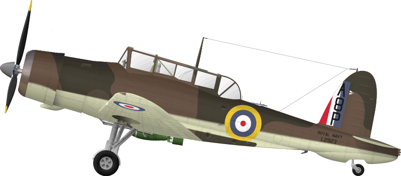 Blackburn Skua L2923, RNAS Hatston, April 1940